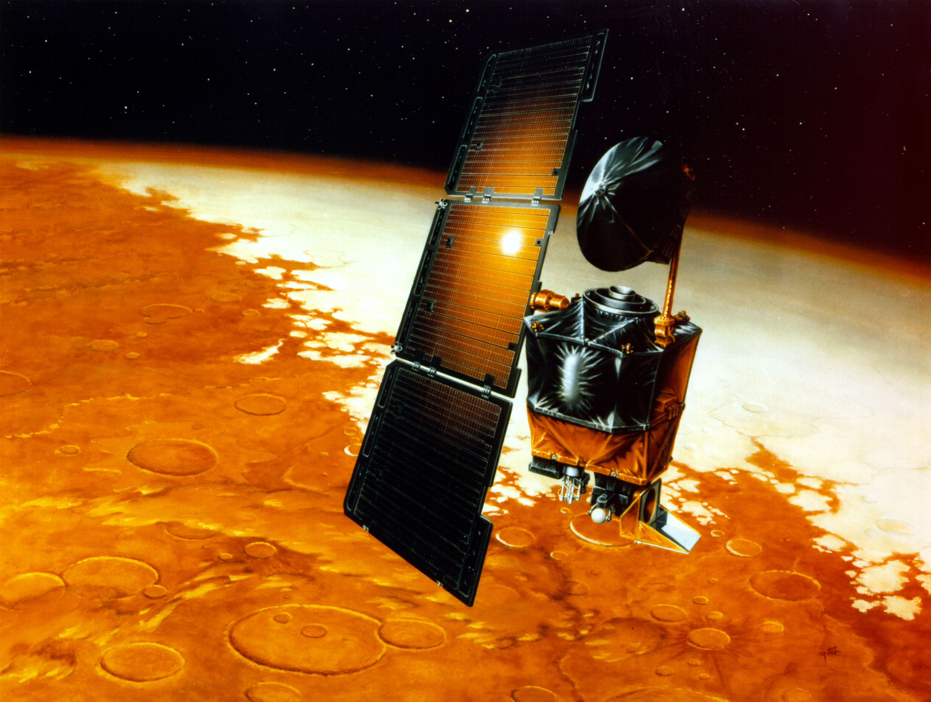 Artistic depiction of Mars Climate Orbiter in orbit around Mars.